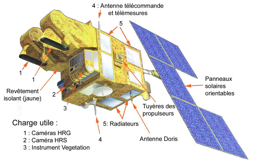 Diagram of the Earth observation satellite Spot 5